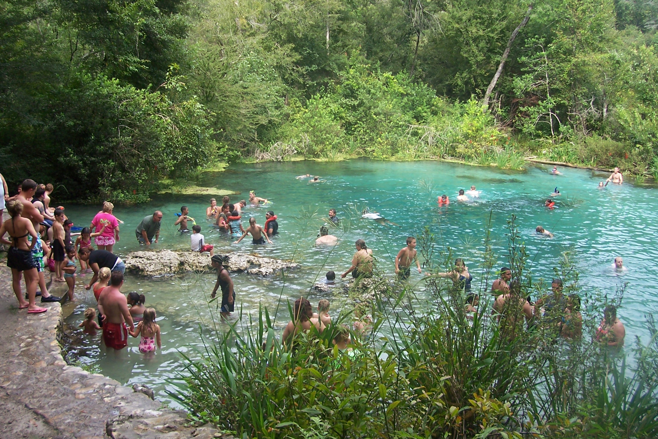 Inside Ichetucknee Springs State Park (North Entrance)